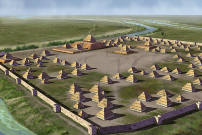 Artists conception of the Parkin Mounds site, a Mississippian culture archaeological site located at the confluence of the St. Francis and Tyronza Rivers in Parkin, Cross County, Arkansas. Many archeologists believe it to be part of the province of Casqui, documented as visited by Spanish explorer Hernando de Soto in 1542. Archaeological artifacts from the village of the Parkin people are dated to 1400–1650 CE. All rights held by the artist, Herb Roe © 2016.